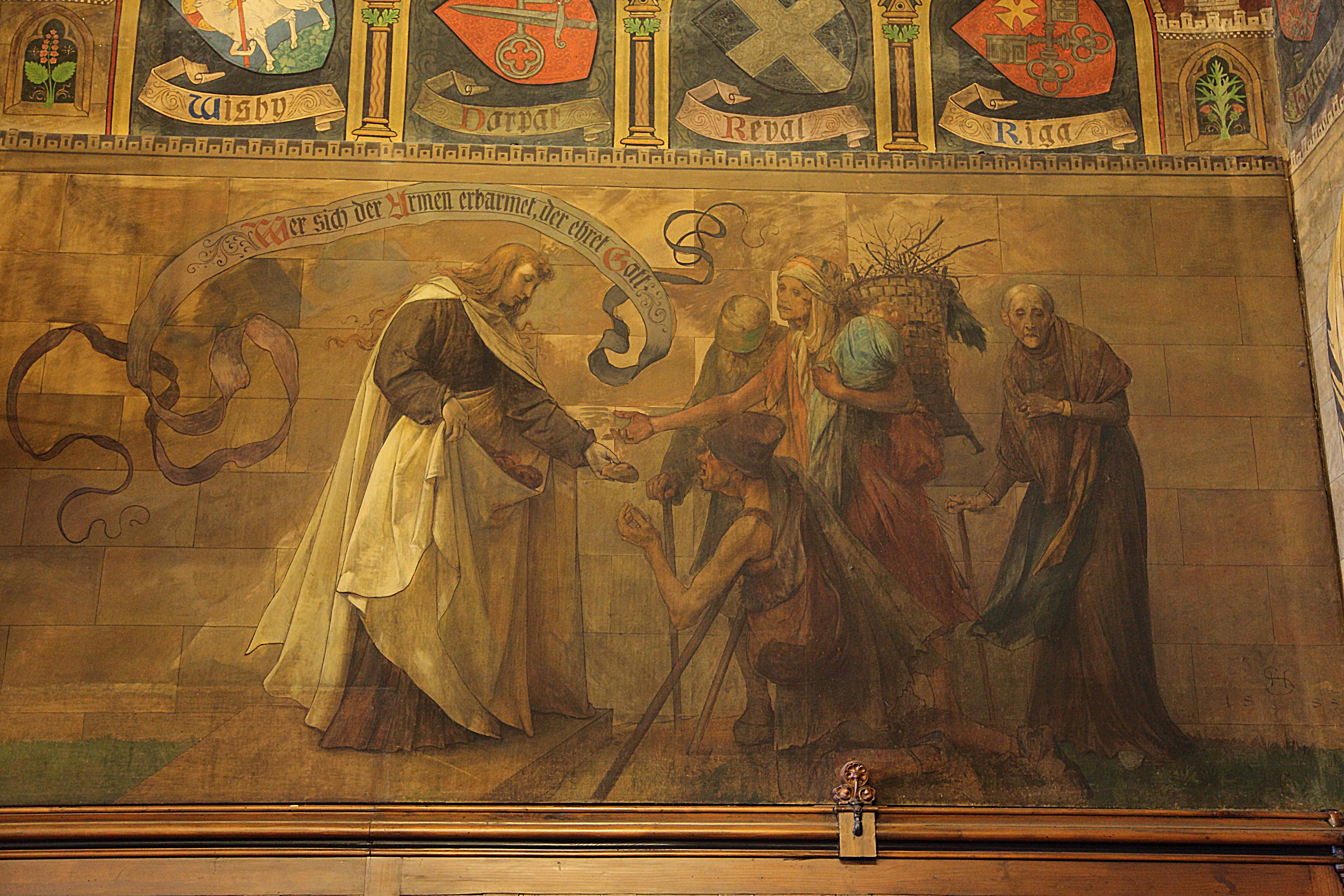 Interior of the old town hall in Gõttingen, Niedersachsen, Germany